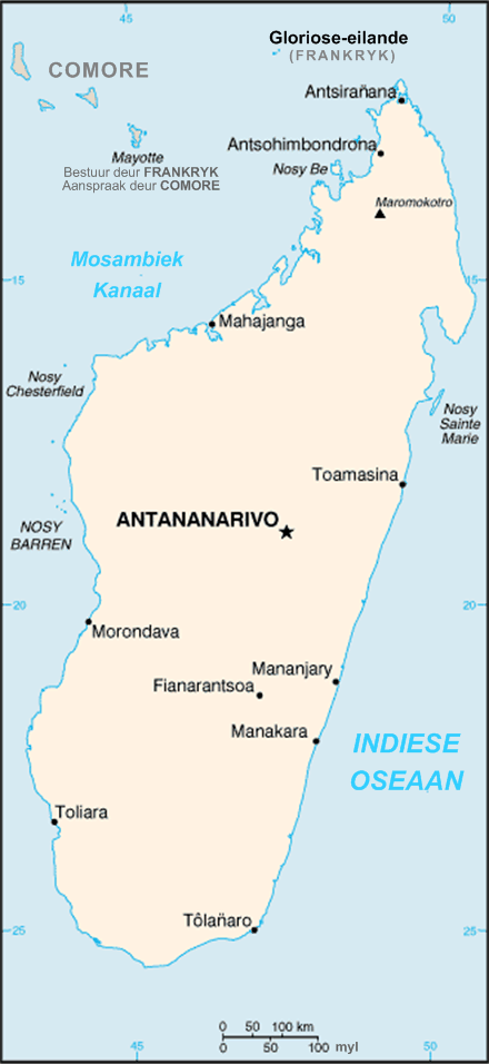 An Afrikaans map of Madagascar.